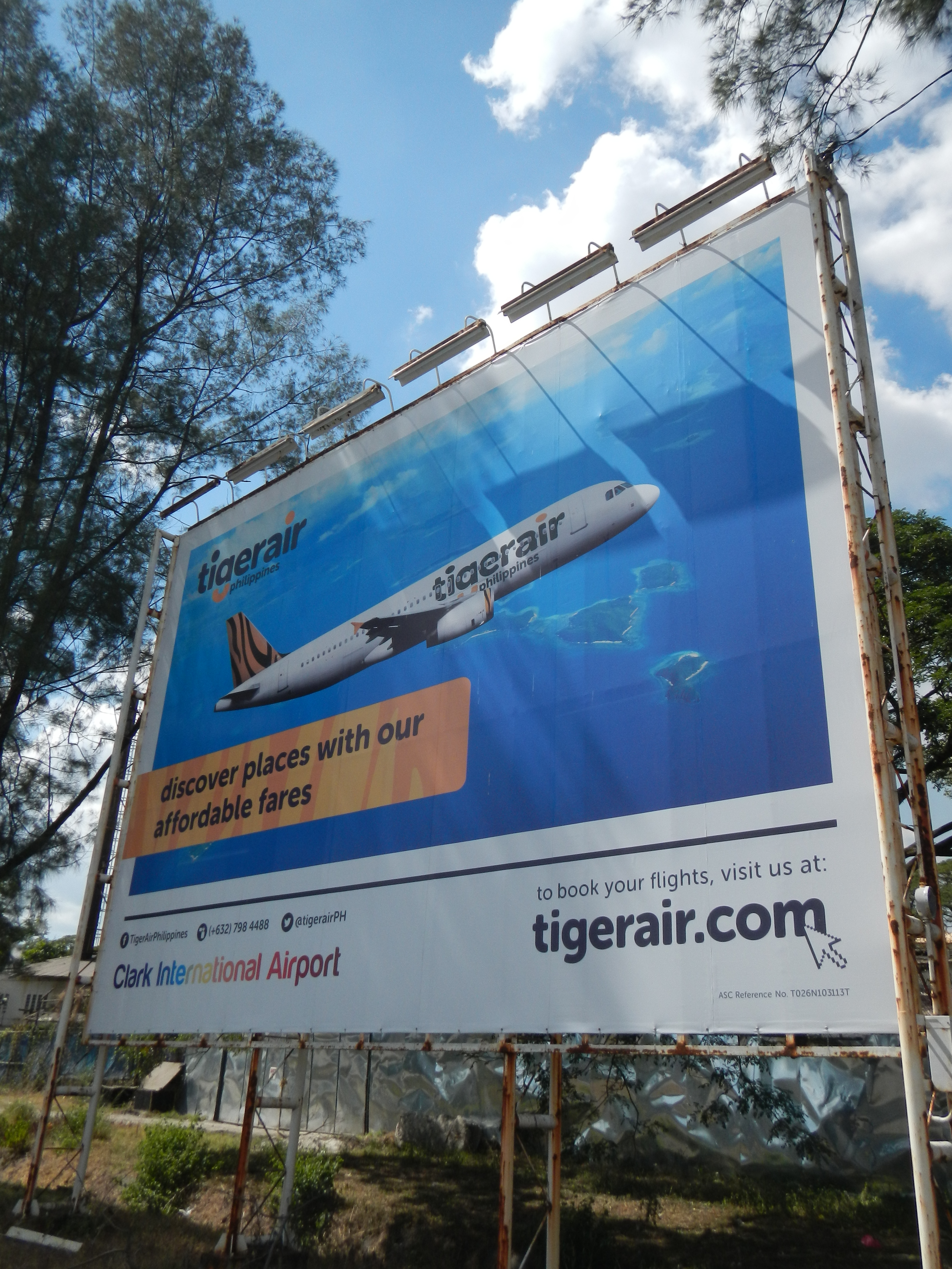 Upload Wizard photo (general description of the landmarks, angle by angle photography of the city, town, rivers, bridges and interesting points) of - Tigerair Philippines[1] formerly known as SEAir and South East Asian Airline.